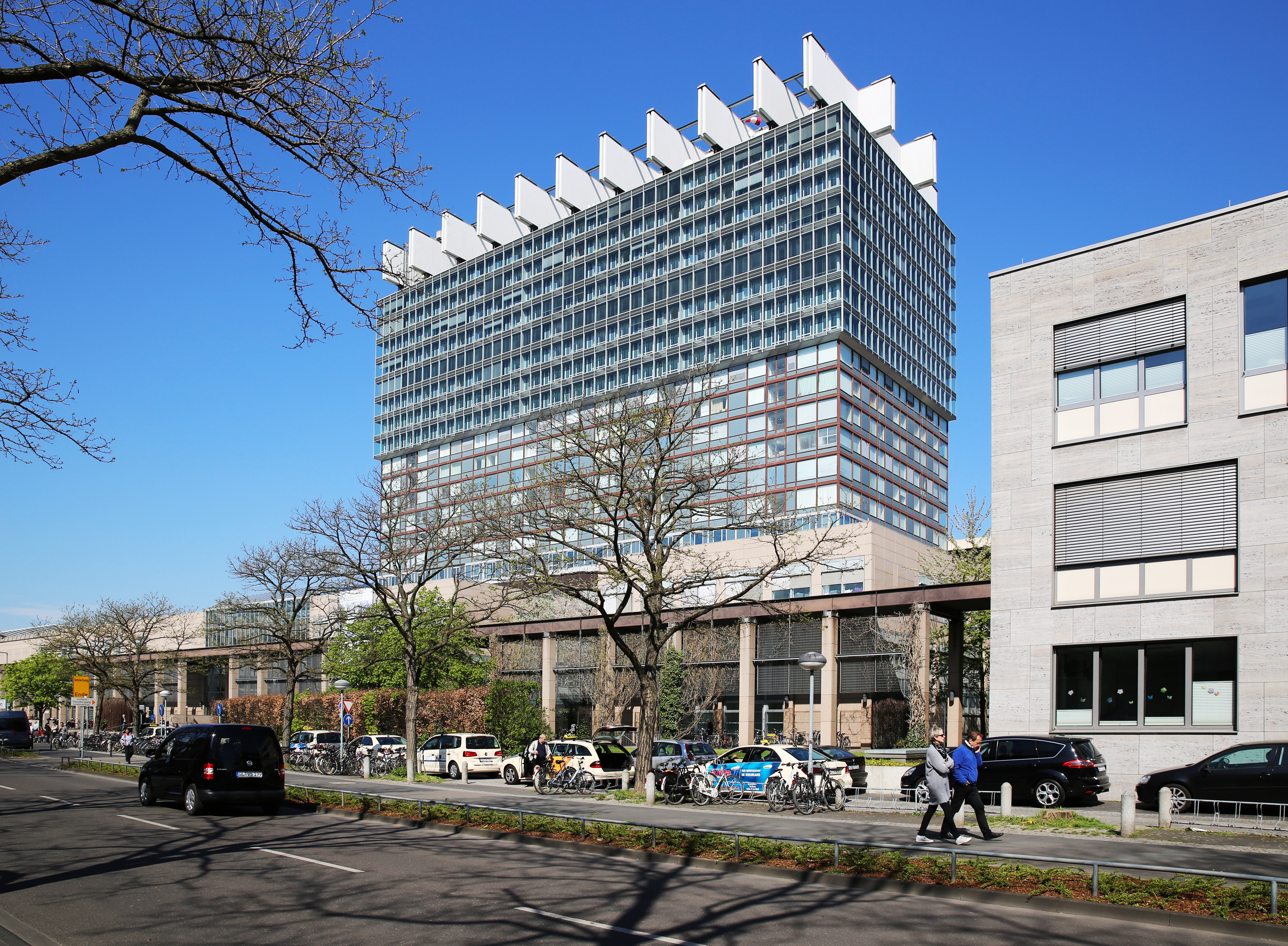 University hospitals in Cologne, Germany